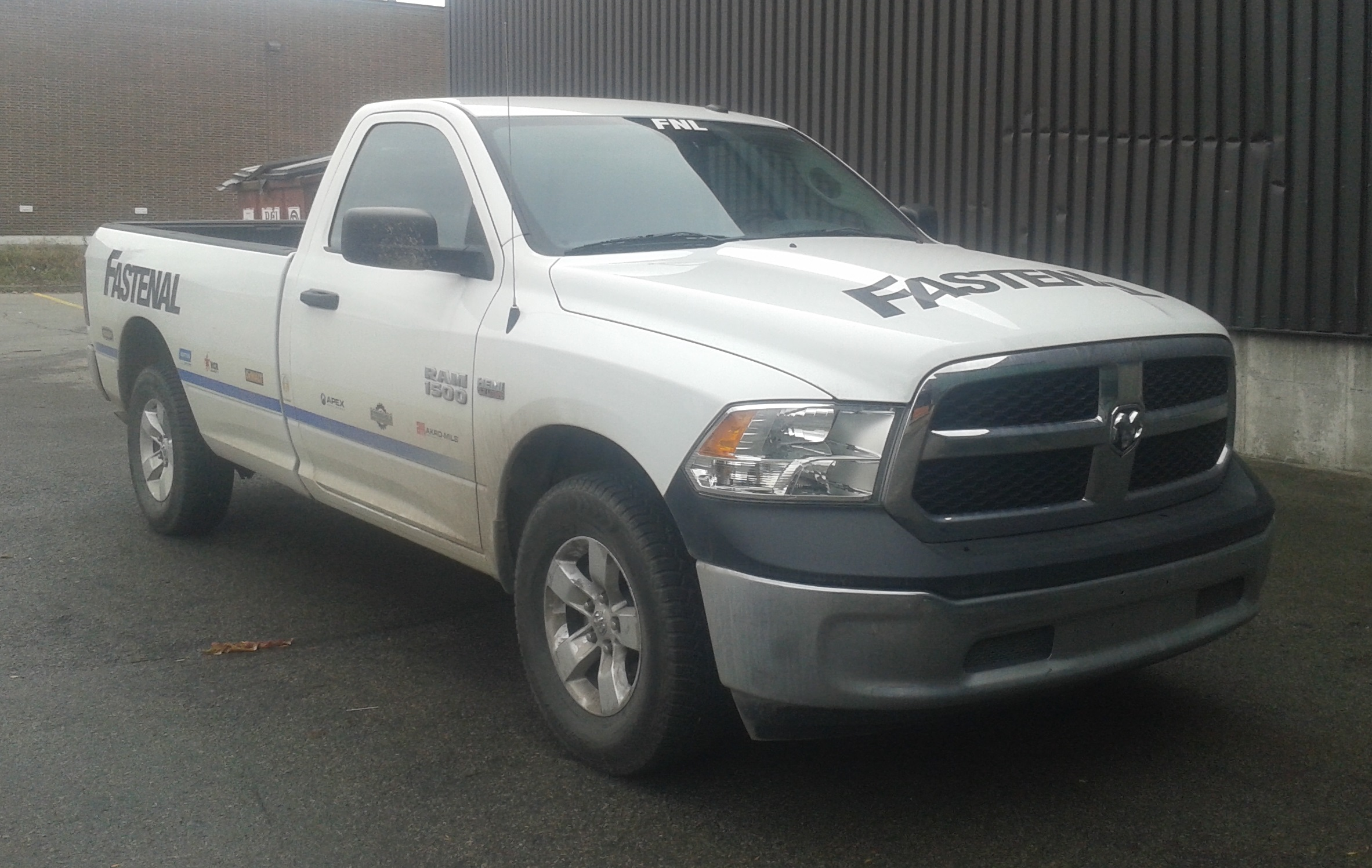 Ram 1500 photographed in Pointe-Claire, Quebec, Canada.